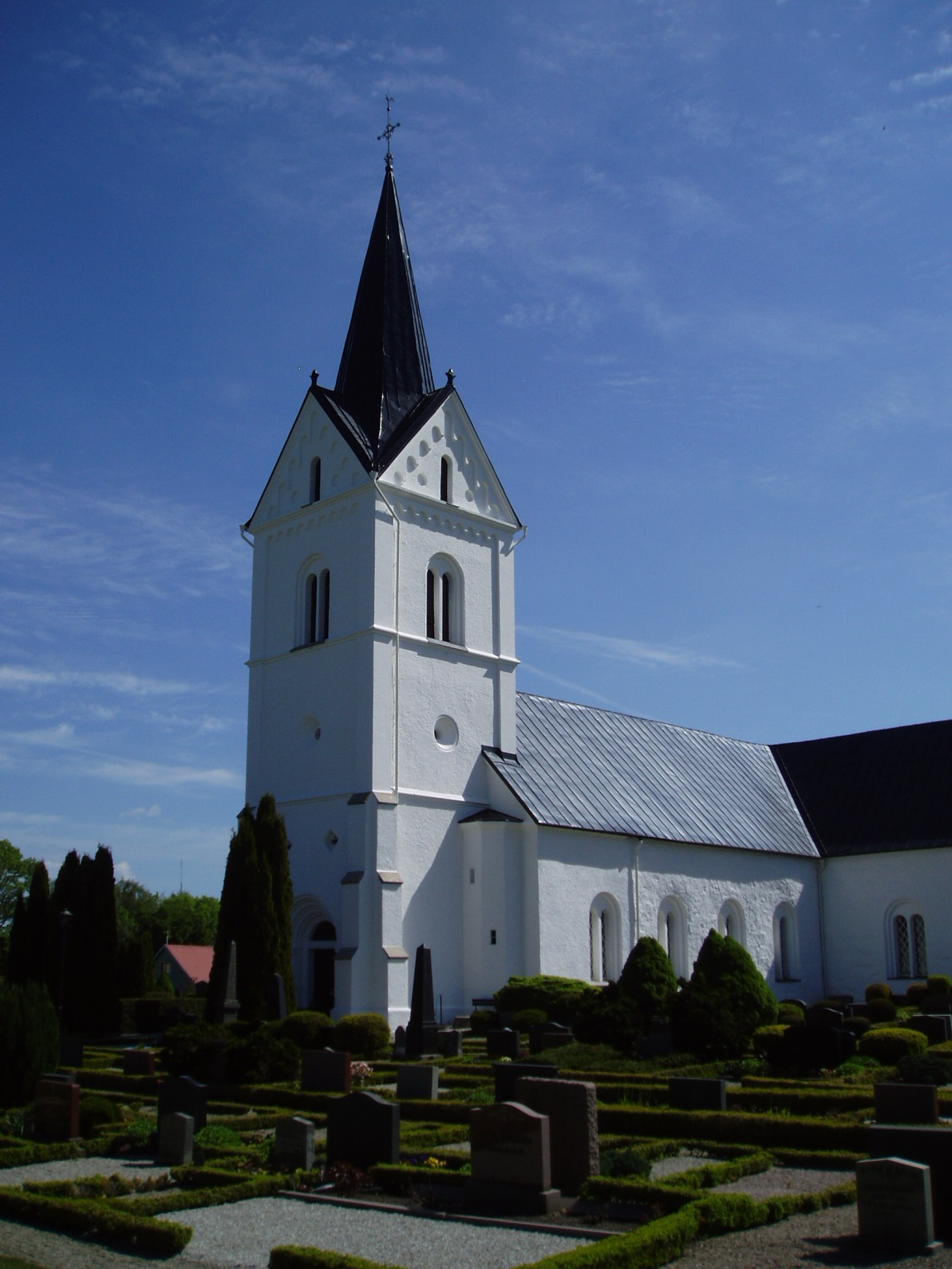 Church St. Annen, Lyby, Scania, Sweden